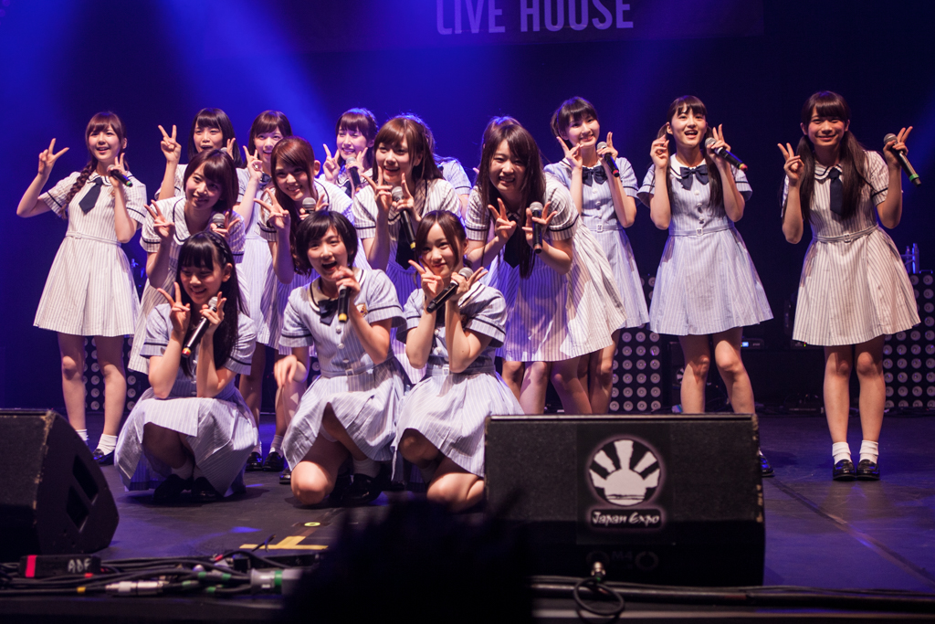 Nogizaka46 live performance at the JAPAN EXPO 2014 in Paris, France.